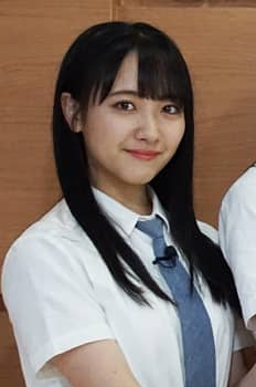 Chiho Ishida and Yumiko Takino visit Universitas Darma Persada, Jakarta